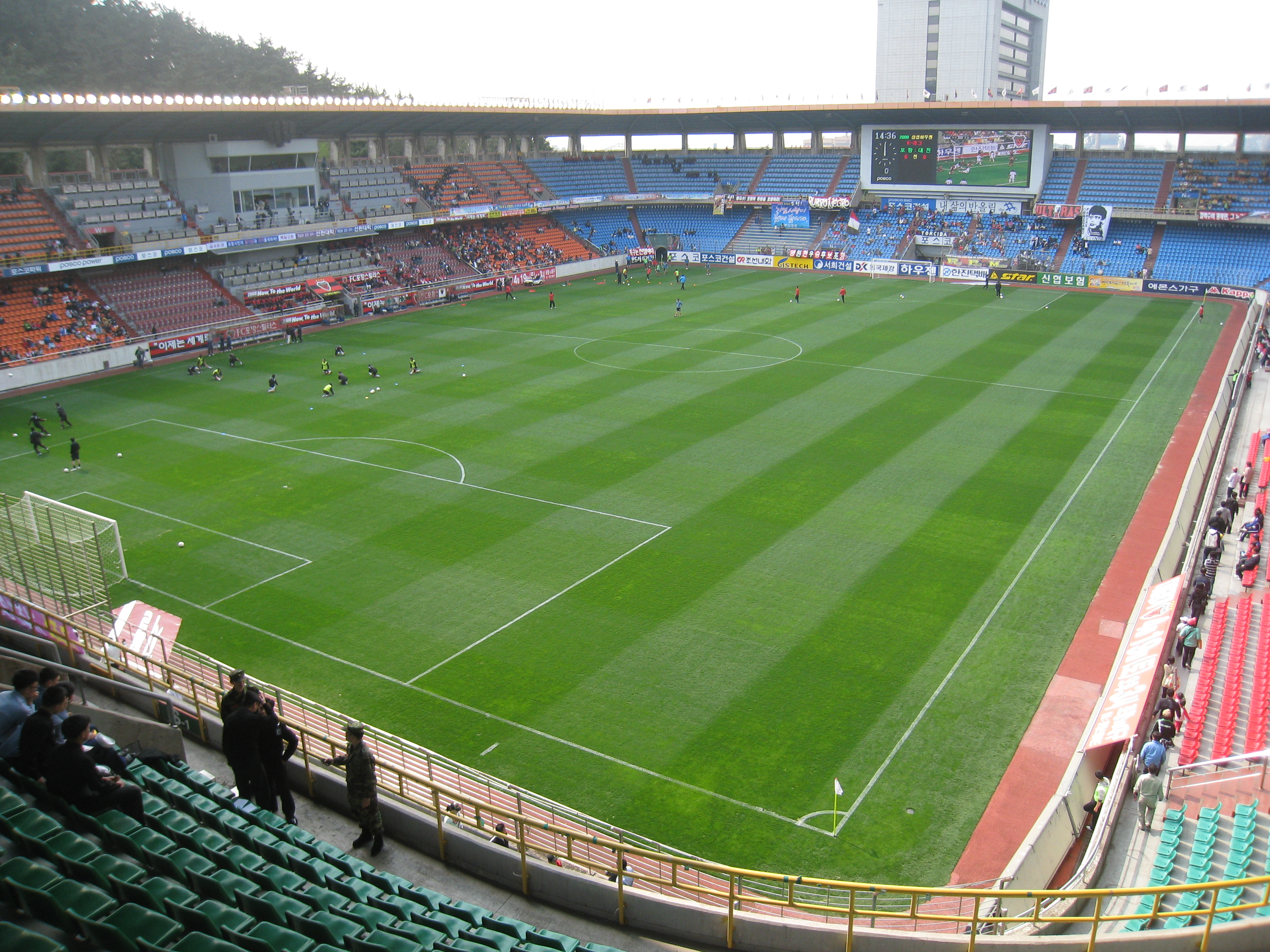 Pohang steelyard football ftadium. Pohang-Shi. South Korea.